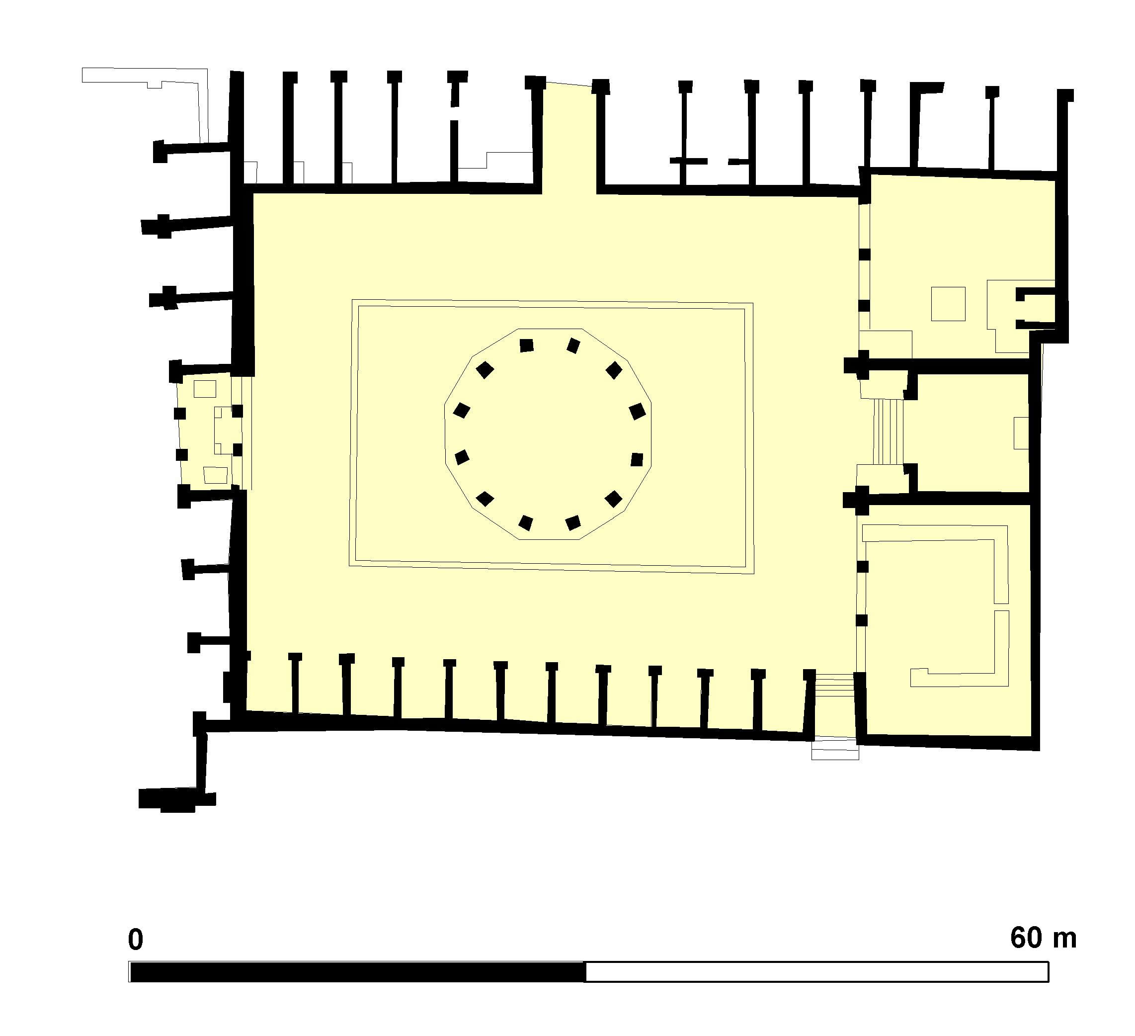 plan of the macellum in Pompeii